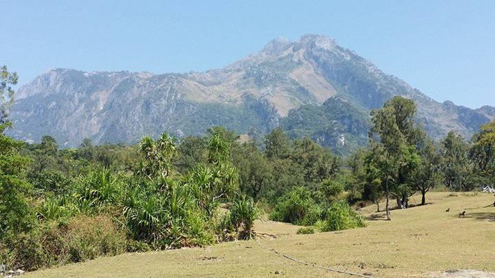 This picture was shot from Boramori. There we can see the top of mount Matebian and Tibalari. In 1975, when the Indonesian military invaded East Timor, ten thousands of East Timorese who refused the presence of Indonesian hid around that mountain for three years.